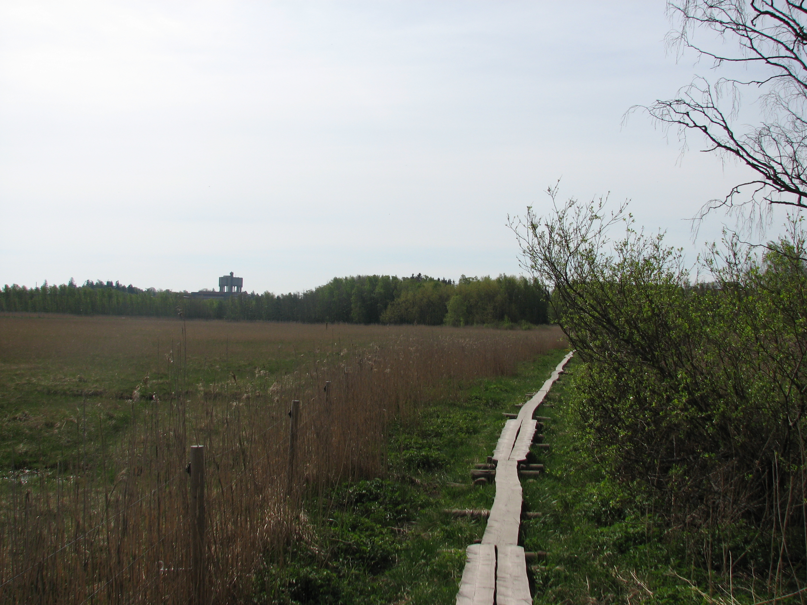 A view of the nature preservation area in Laajalahti, Espoo, Finland. The duckboards seen in the picture are over 2 km in length and run from Villa Elfvik to Maarinranta, Otaniemi. The fenced area to the left is off limits. The Otaniemi water tower can be seen in the background skyline.